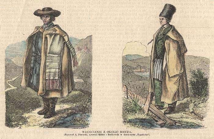 Rusyns from Biecz, Lower Beskids